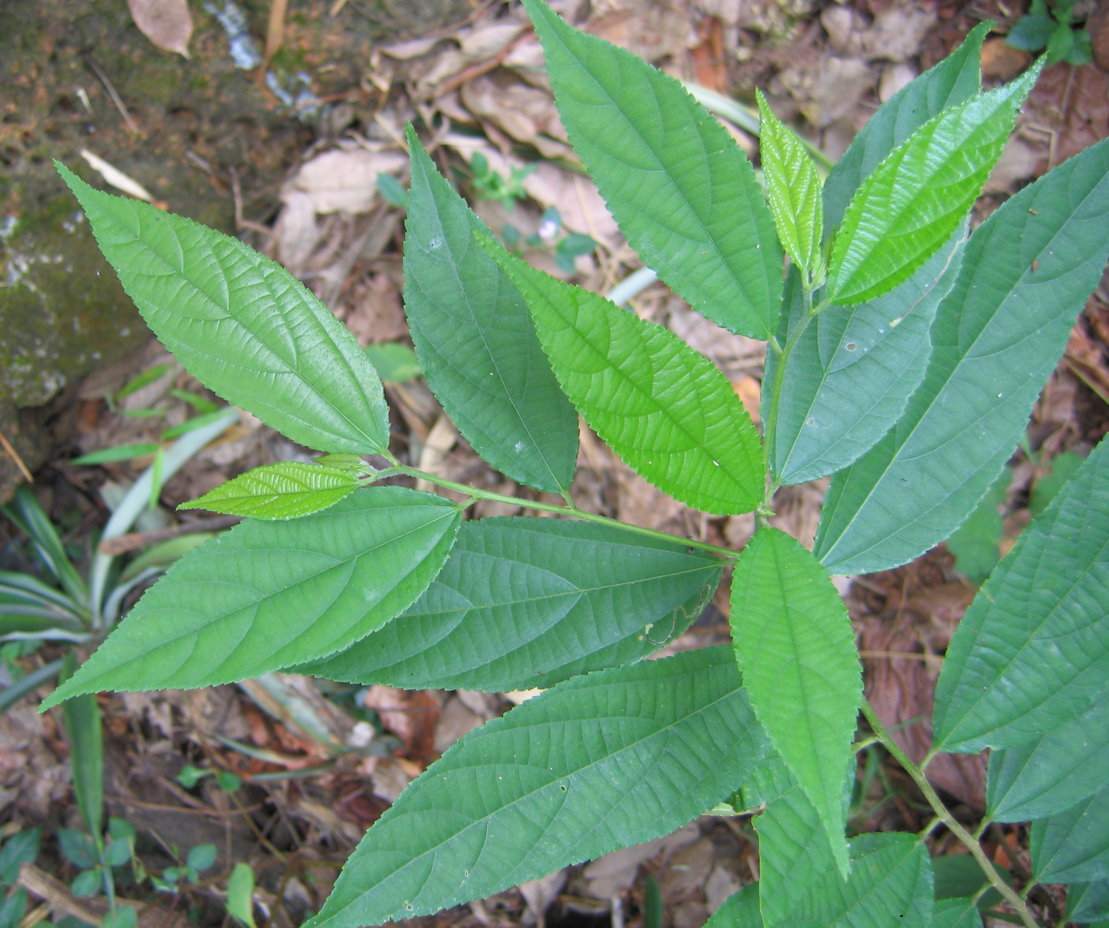 Grewia serrulata